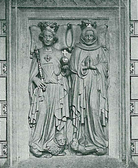 historical view of Heidelberg